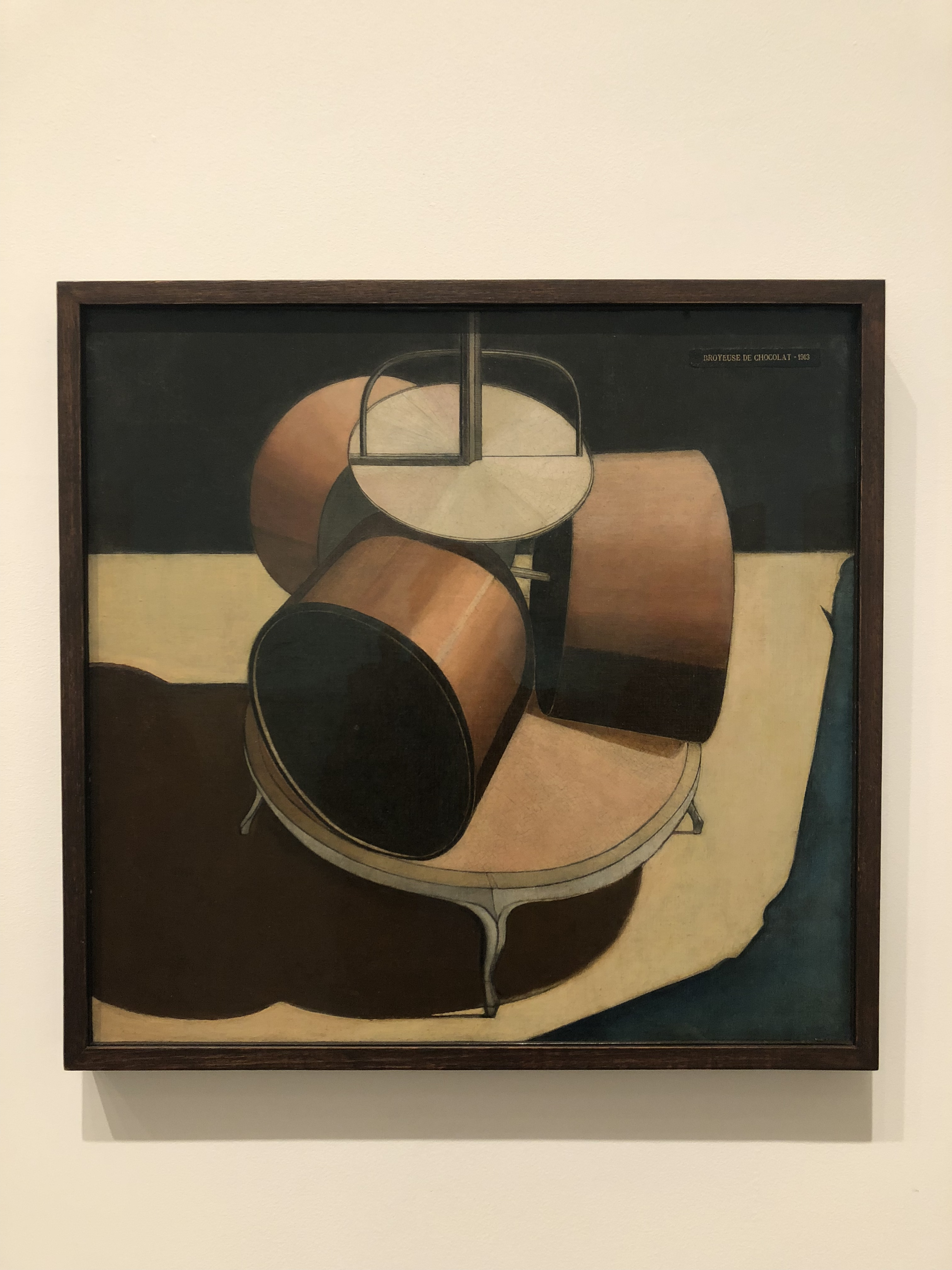 painting by Marcel Duchamp